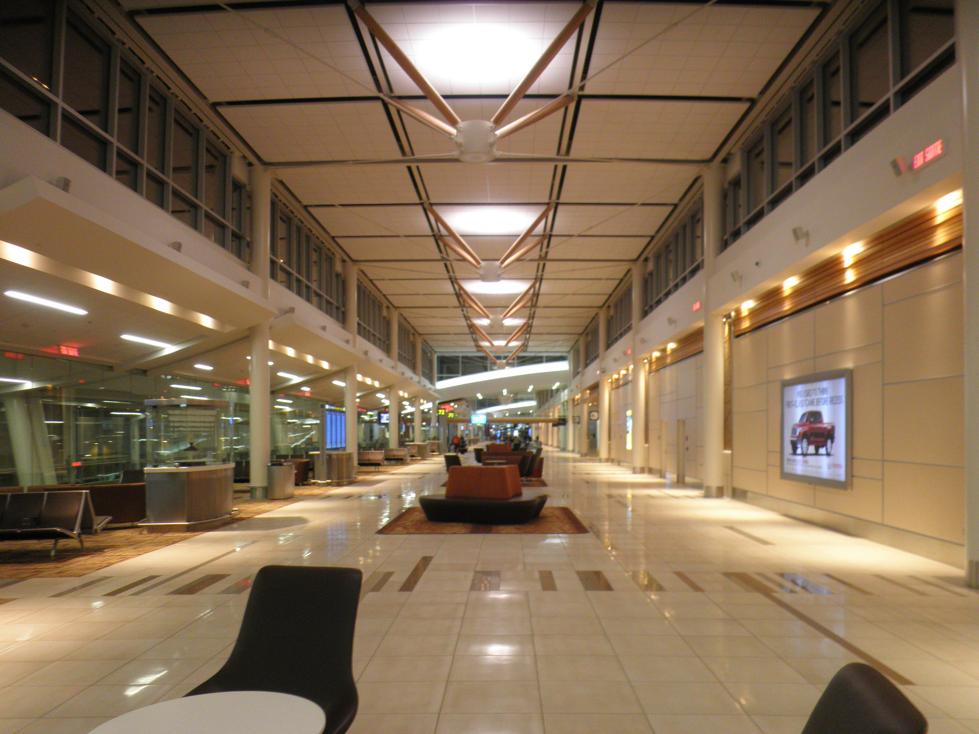 Expansion of Edmonton International Airport's domestic terminal.